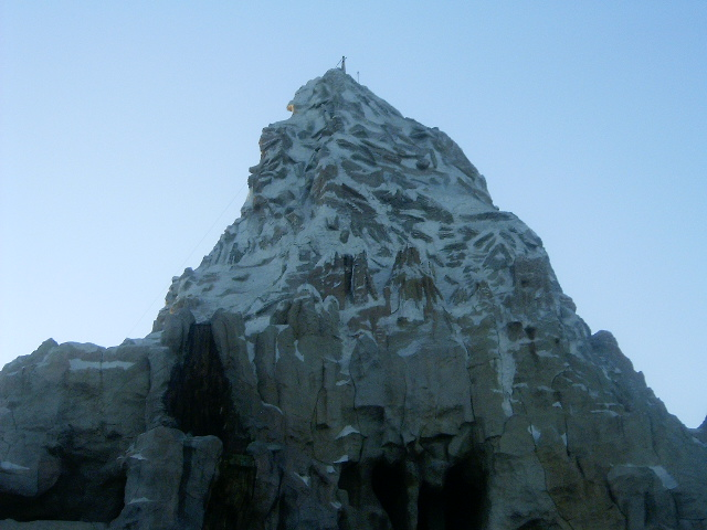 The Matterhorn at Disneyland